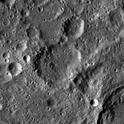 LROC . Ritz is the eroded crater at center; NW rim of Sklodowska visible at bottom right edge.